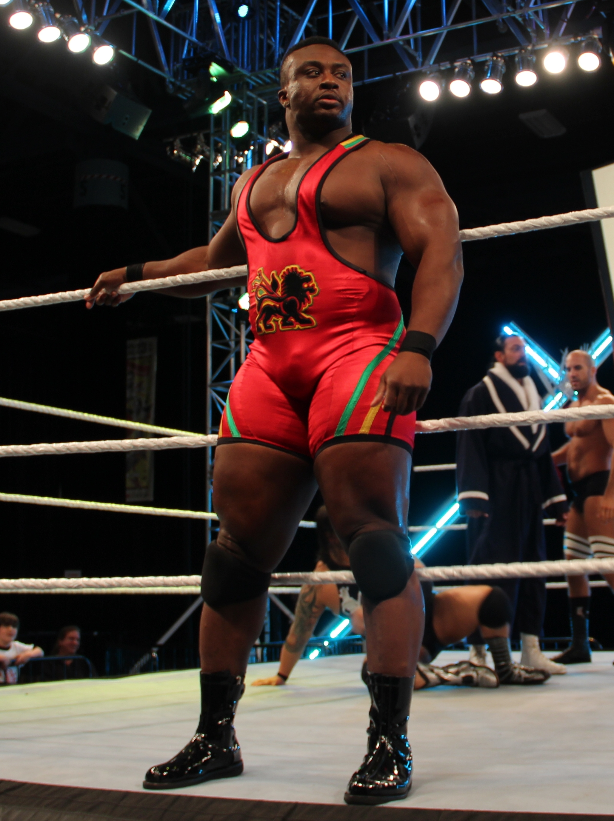 Big E. Langston prior to a match at Wrestlemania Axxess in April 2012. Cropped from original.